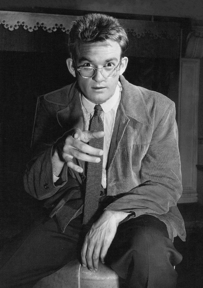 1950 World Record 120 High Hurdler Dick Attesey in Campus Play Press Photo